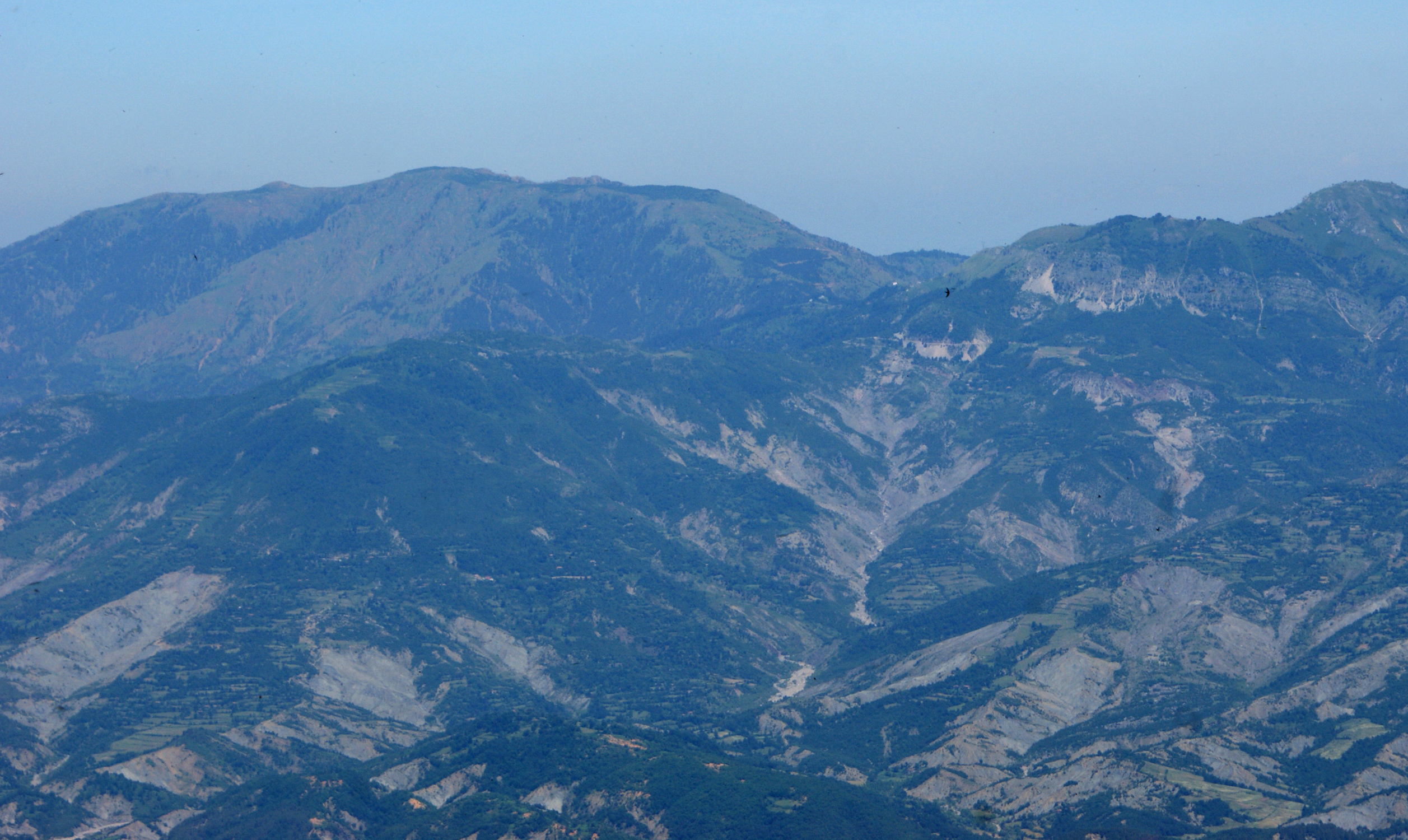 Maja e Liqenit (1724 m) and Qafë Shtama seen from Maja e Tujanit (1531 m, almost 20 km further South)